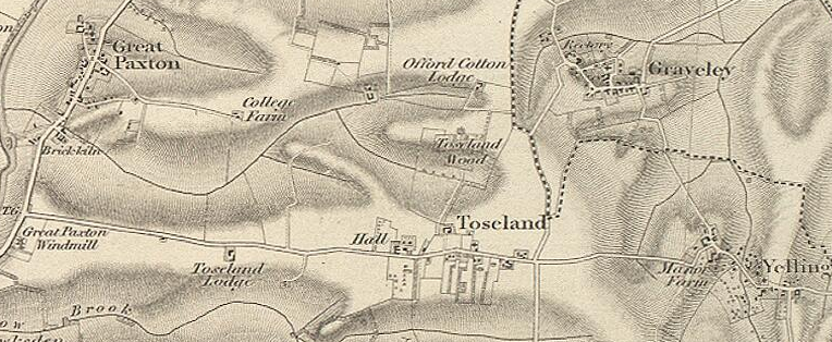 Ordinance Survey map of Toseland in 1835